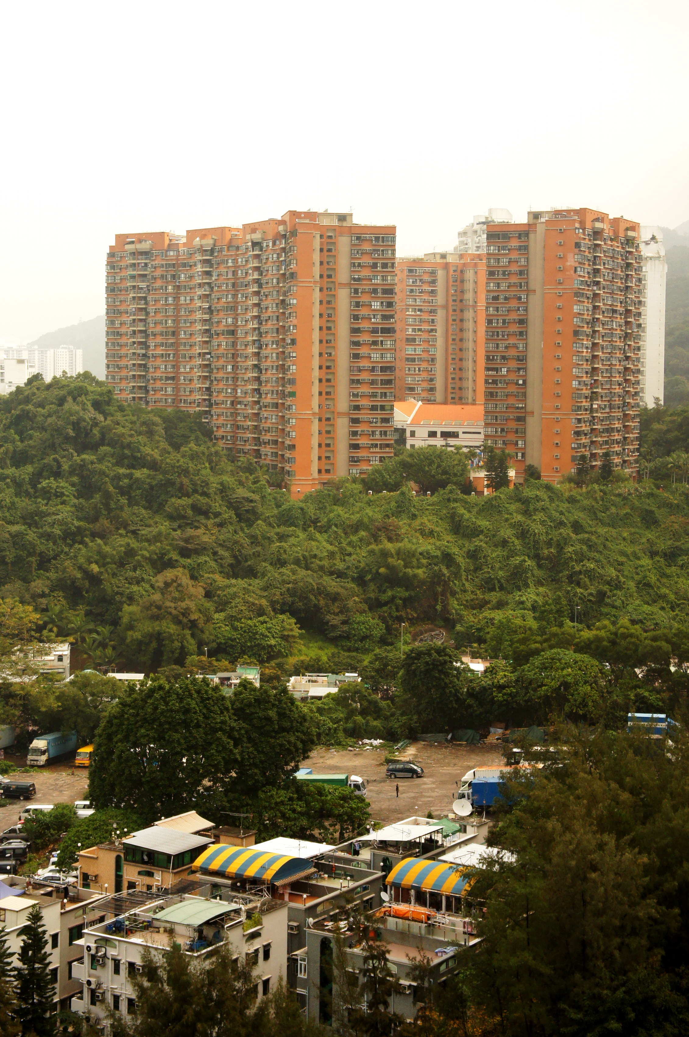 Parc Royale, 8 Hin Tai Street, Tai Wai, Shatin, New Territories, Hong Kong.